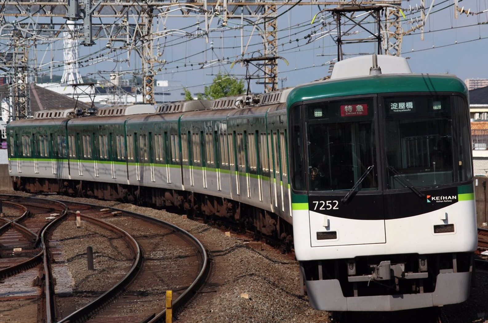 Keihan Electric Railway 7200 series EMU set 7202 approaching Kayashima Station in Osaka Prefecture, Japan